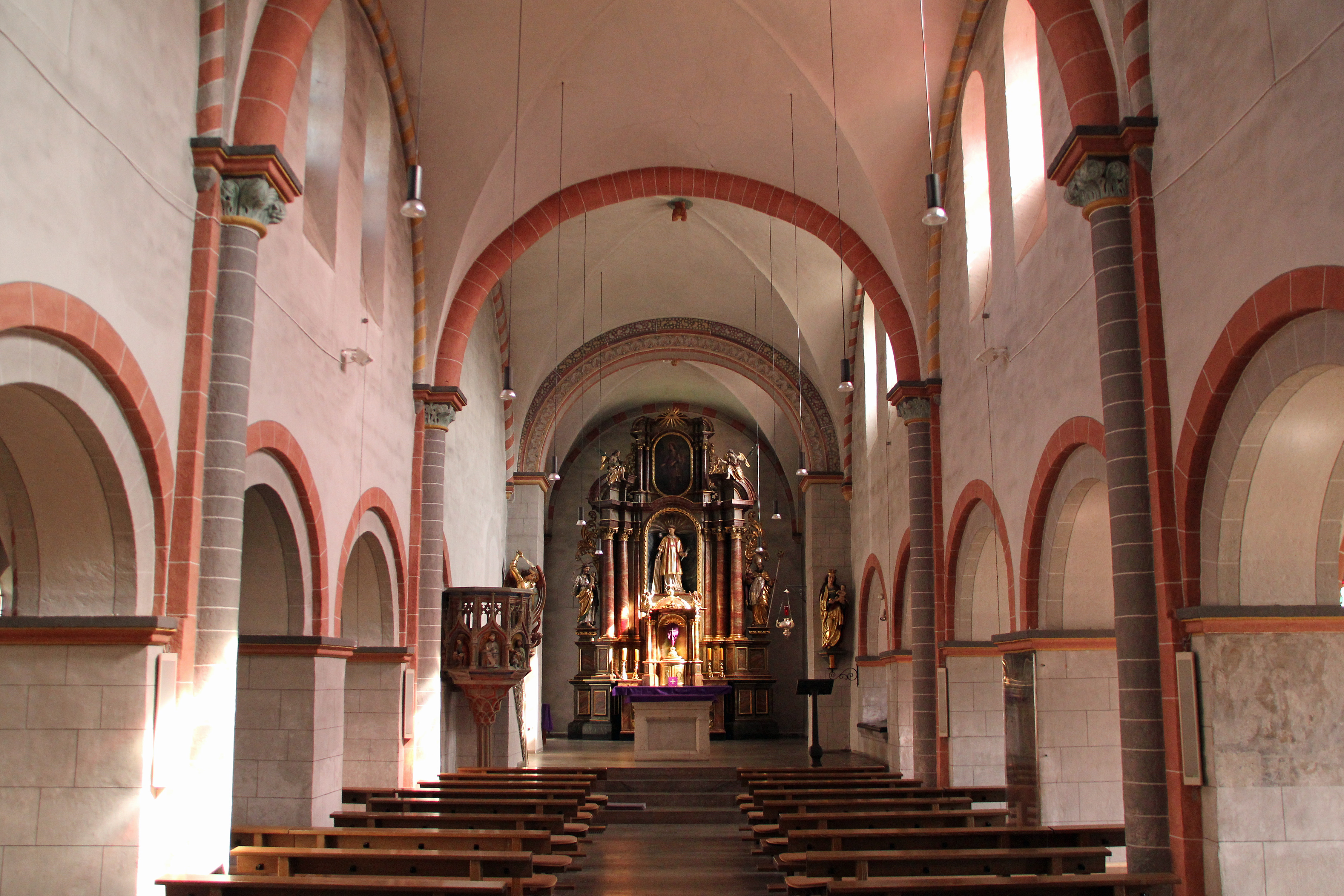 St. Laurentius church in Koblenz